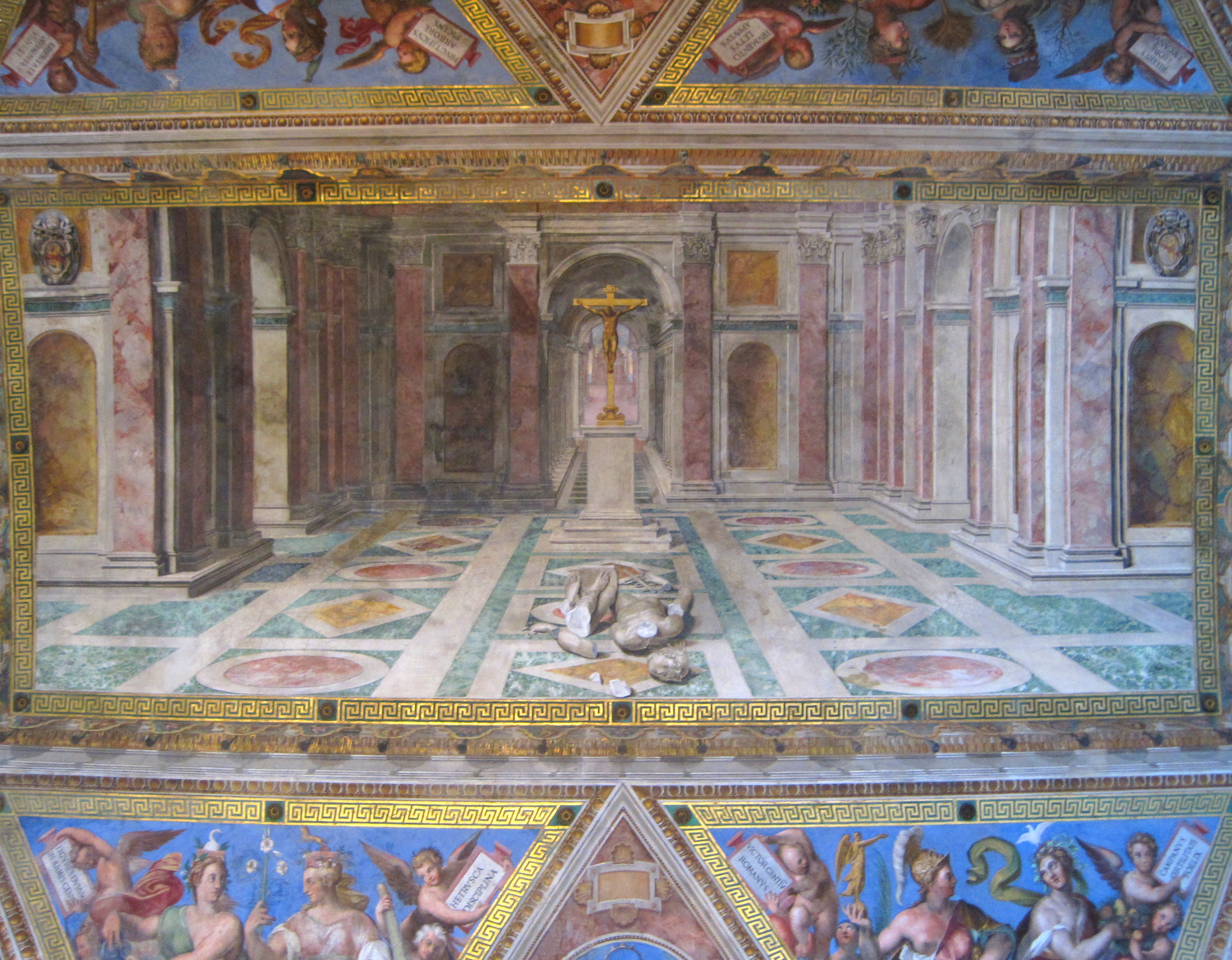 Triumph of Christianity over paganism - Fresco (1517-1524) decorating the vault of the Constantine Hall (Sala di Costantino) by the painter Tommaso Laureti.